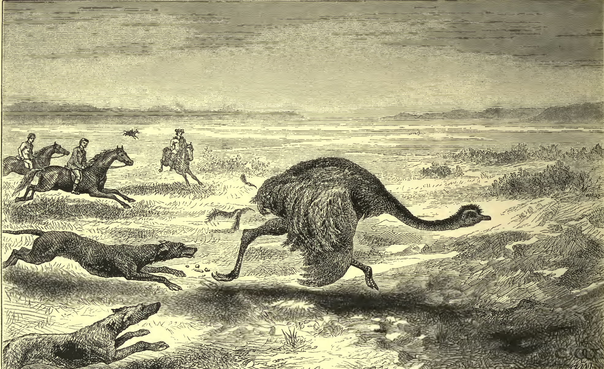 "The Last Double" Hunting Ostriches in Patagonia. The Ostrich is being chased by dogs and riders.